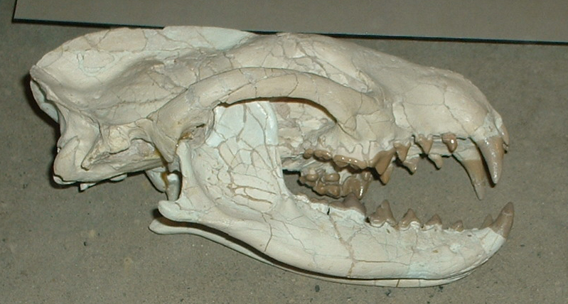 Photograph of the skull of an Oligocene dog, Daphoenodon superbus (formerly Daphoenus), of the Brule Formation, South Dakota. From the Royal Tyrrell Museum of Drumheller, Alberta. August of 2006.